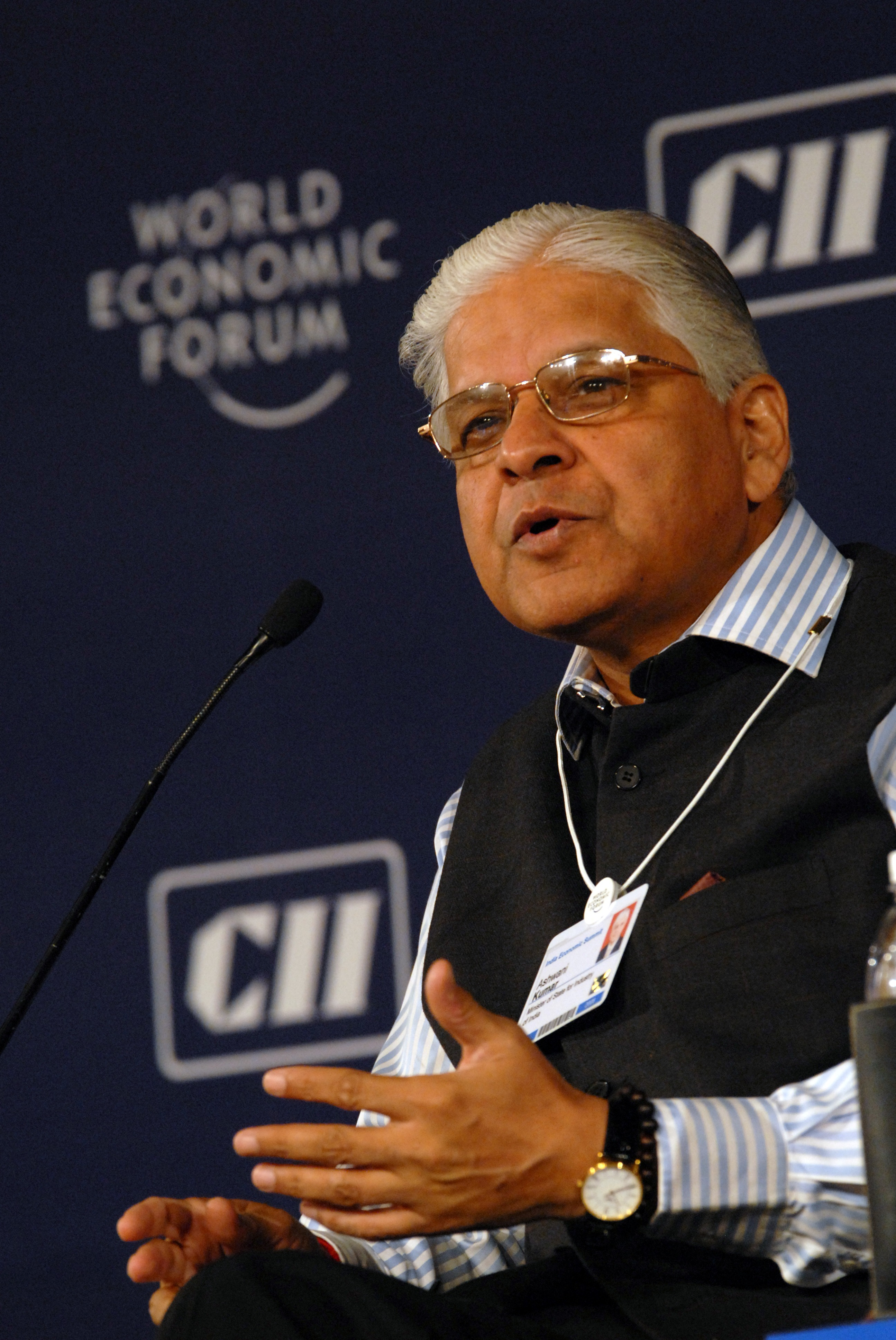 Ashwani Kumar, Indian politician and Minister of State, speaks at a plenary session titled Big Bets on Technology and Manufacturing held at the World Economic Forum's India Economic Summit 2008 in New Delhi, India.